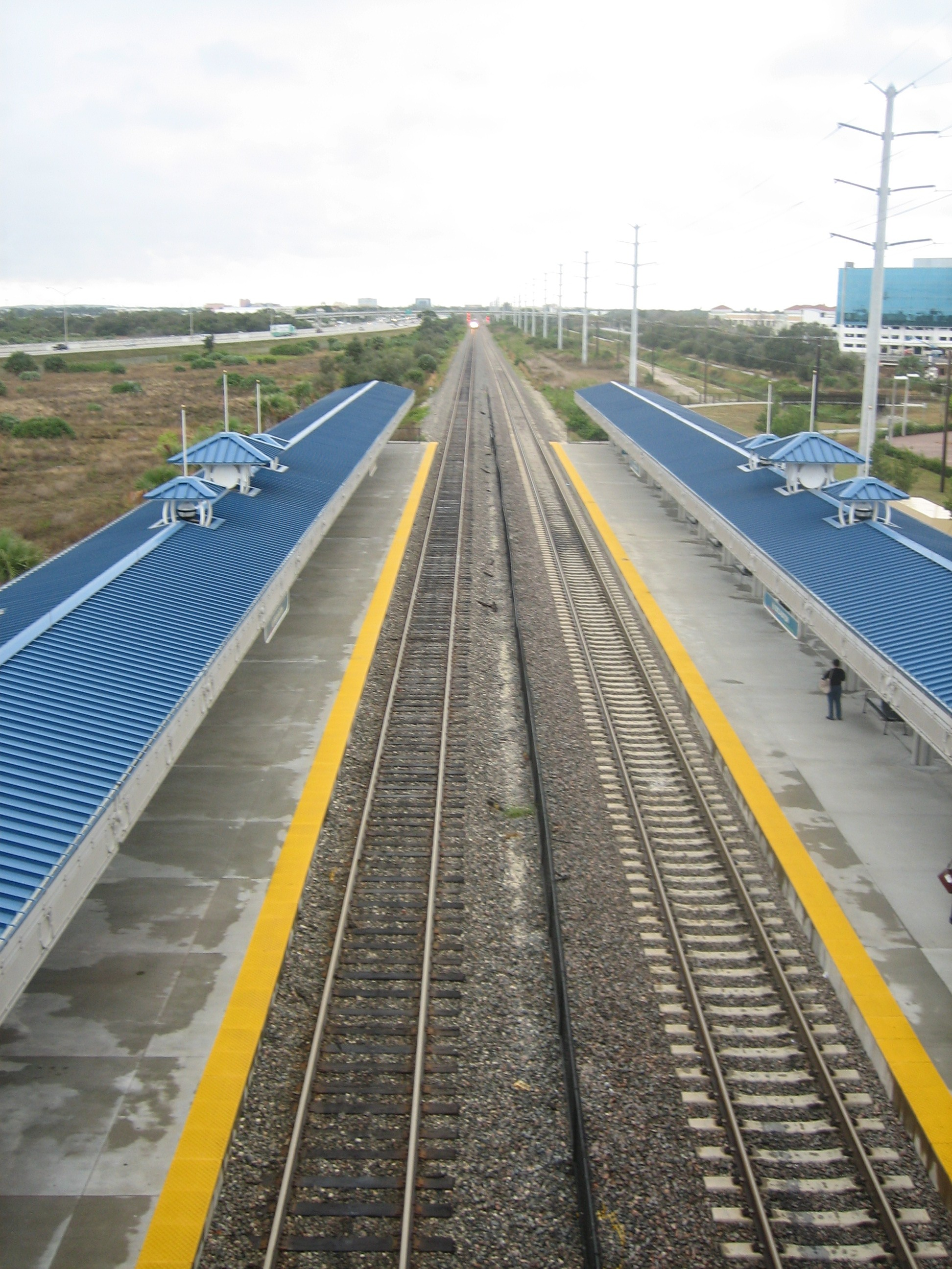 A south facing picture of the Boca Raton Tri-Rail station. A northbound Amtrak train is visible in the distance.